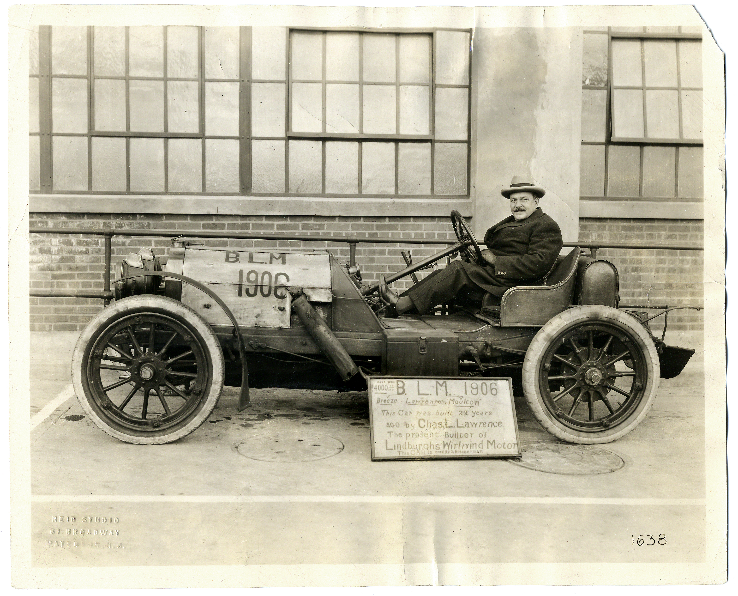 1928 photo of a 1906 car built by Charles L. Lawrence. Lawrence was a designer of radial air-cooled engines and was the president of the Wright Aeronautical Corp. at the time this photo was taken. The sign in the picture claims that he built the Whirlwind engines used by Charles Lindburgh. The car is called a B.L.M. for Breese, Lawrence, Moulton. The sign also states that it is owned by S.B. Hagerman. This may have been the same S.B. Hagerman that owned the Prospect Garage in Ridgewood, New Jersey around 1910. The man behind the wheel is unidentified. The full text of the sign reads: Cost new $4000.00 B.L.M. 1906 Breeze (sic), Lawrence, Moulton This car was built 22 years ago by Chas. L. Lawrence The present builder of Lindburghs Wirlwind (sic) Motor The car is owned by S.B. Hagerman Back of photo reads: Atlantic City